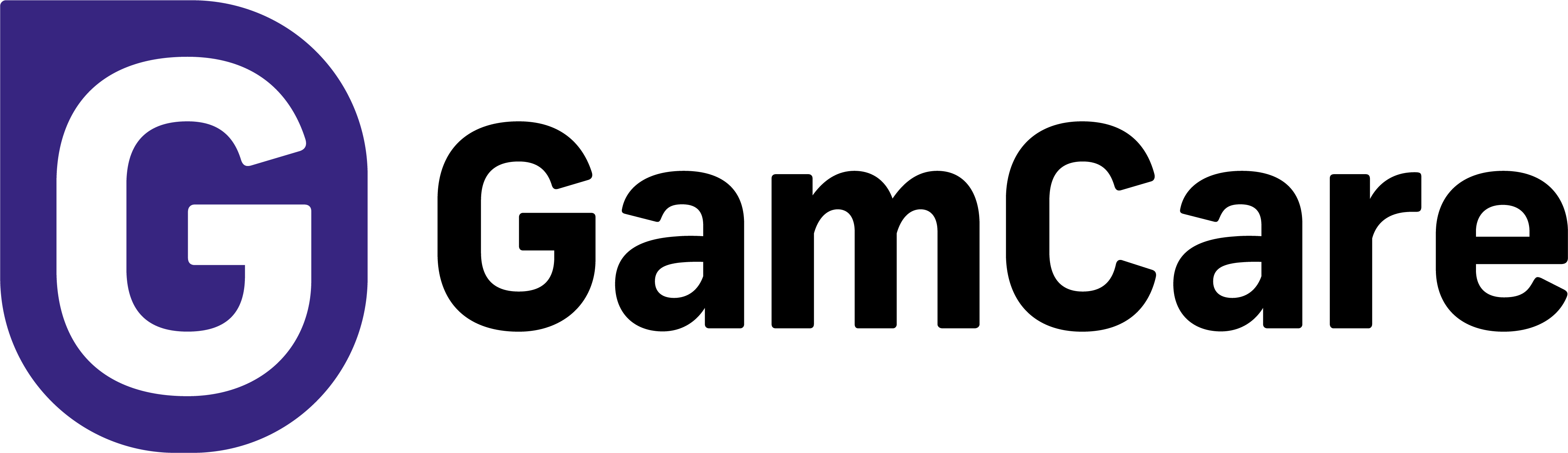 GamCare new logo